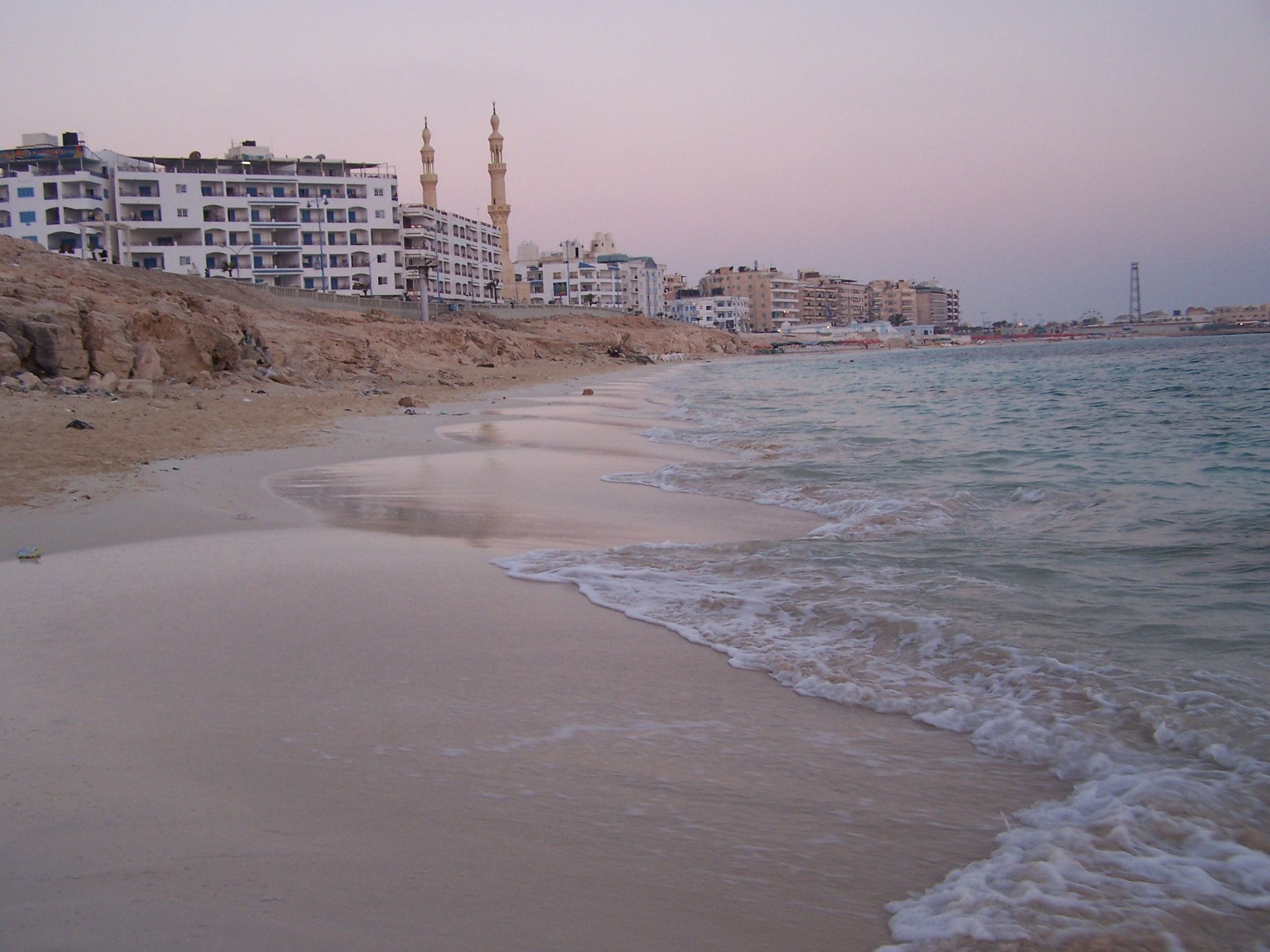 Marsa Matrouh Egypt. Marsa Matrouh Egypt, Egypt.